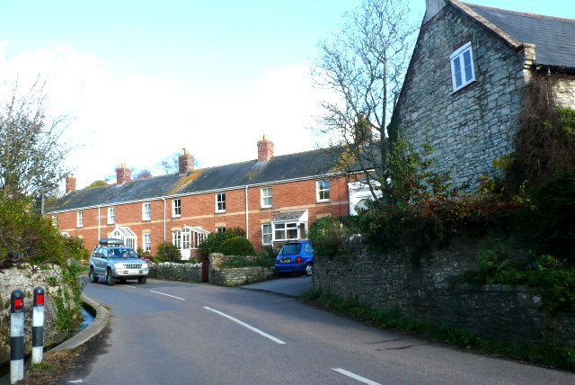 Portesham Dorset This road runs through the centre of the village from the B3157 up to Hardy's Monument